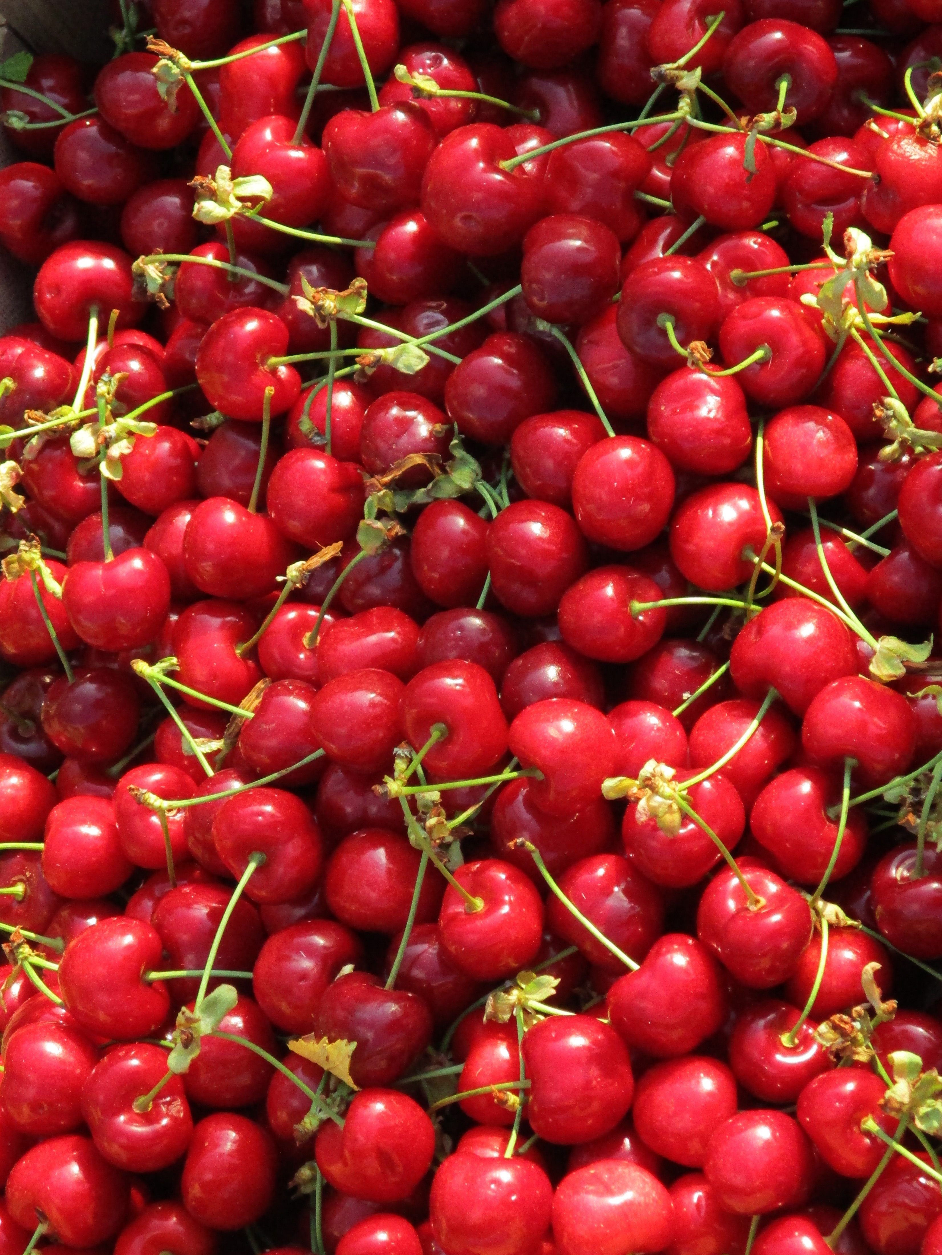 A pile of sweet cherries in a street vendor's basket in Warsaw.